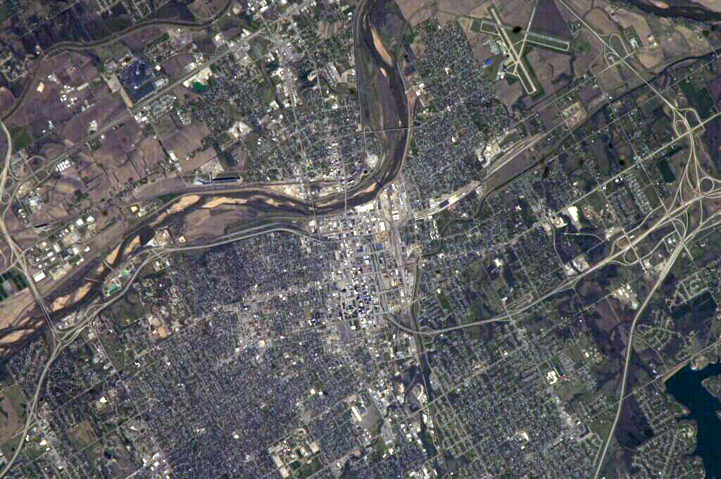 Satellite view of Topeka, Kansas, United States.